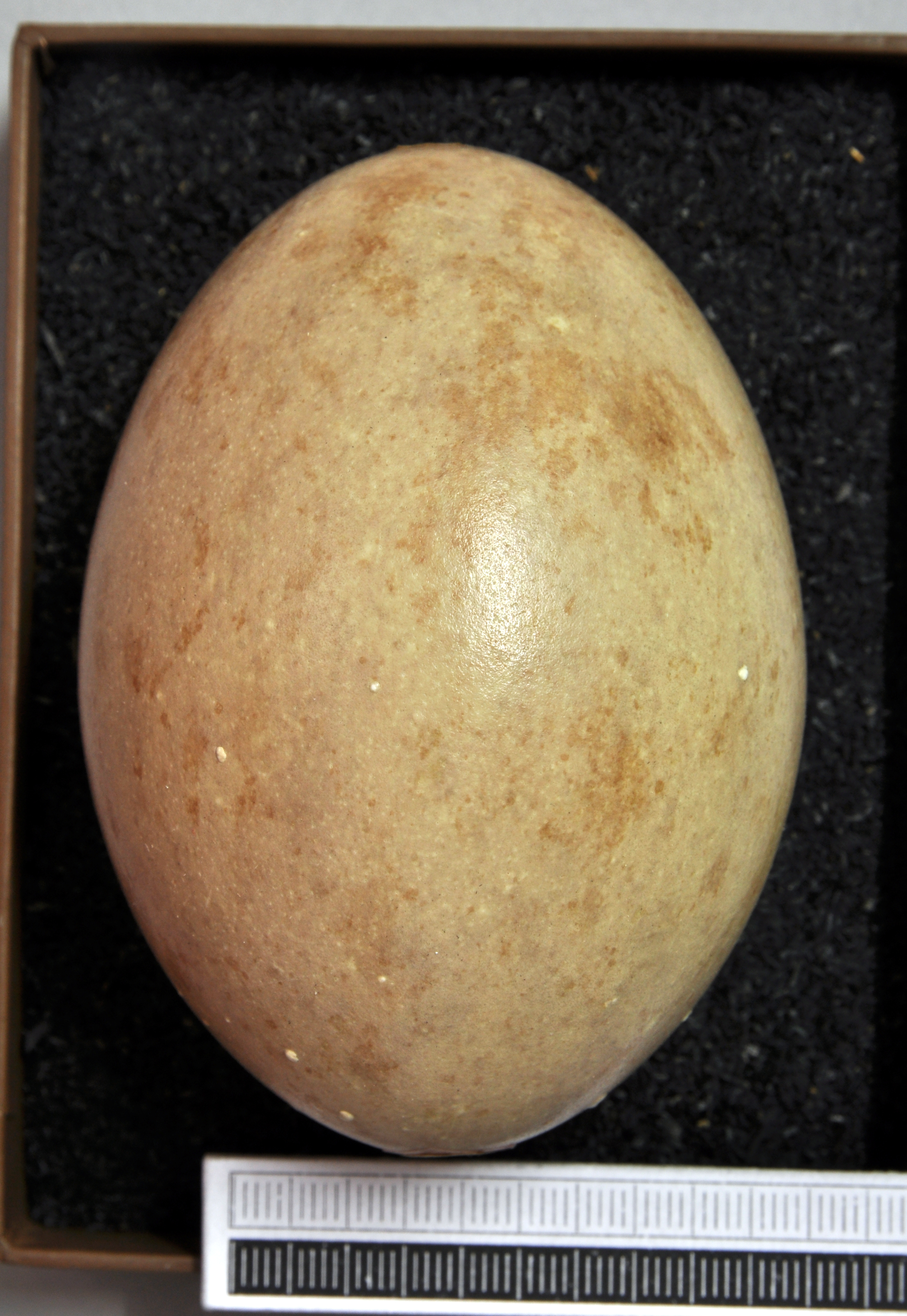 Kori bustard Ardeotis kori , egg, Coll. Museum Wiesbaden